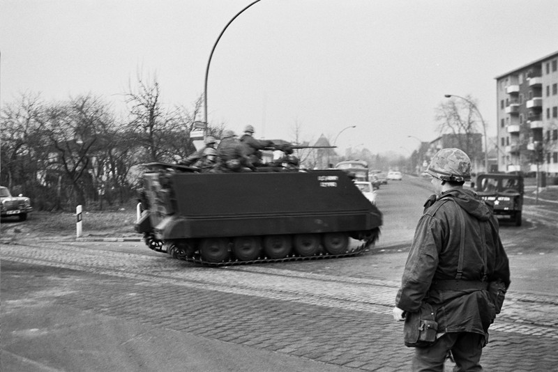 Photo by R. W. Rynerson, Winter 1969-70 shows Armored Personnel Carrier and Jeep of the 4th Battalion, 18th Infantry Regiment of the U.S. Army's Berlin Brigade passing through a Berlin-Zehlendorf residential street intersection under the eyes of a soldier from Headquarters Company of that unit. Alerts occurred monthly as a training exercise, but occasionally additional alerts signalled the receipt of intelligence information on Warsaw Pact maneuvers around the isolated city.